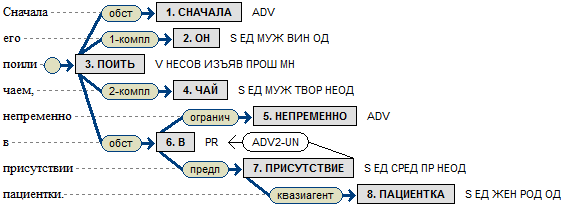 The screenshot of a graphical representation of a sentence tagged in the SynTagRus corpus format.